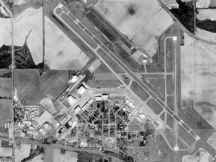 USGS orthophoto of Dothan Regional Airport in Dothan, Alabama, USA